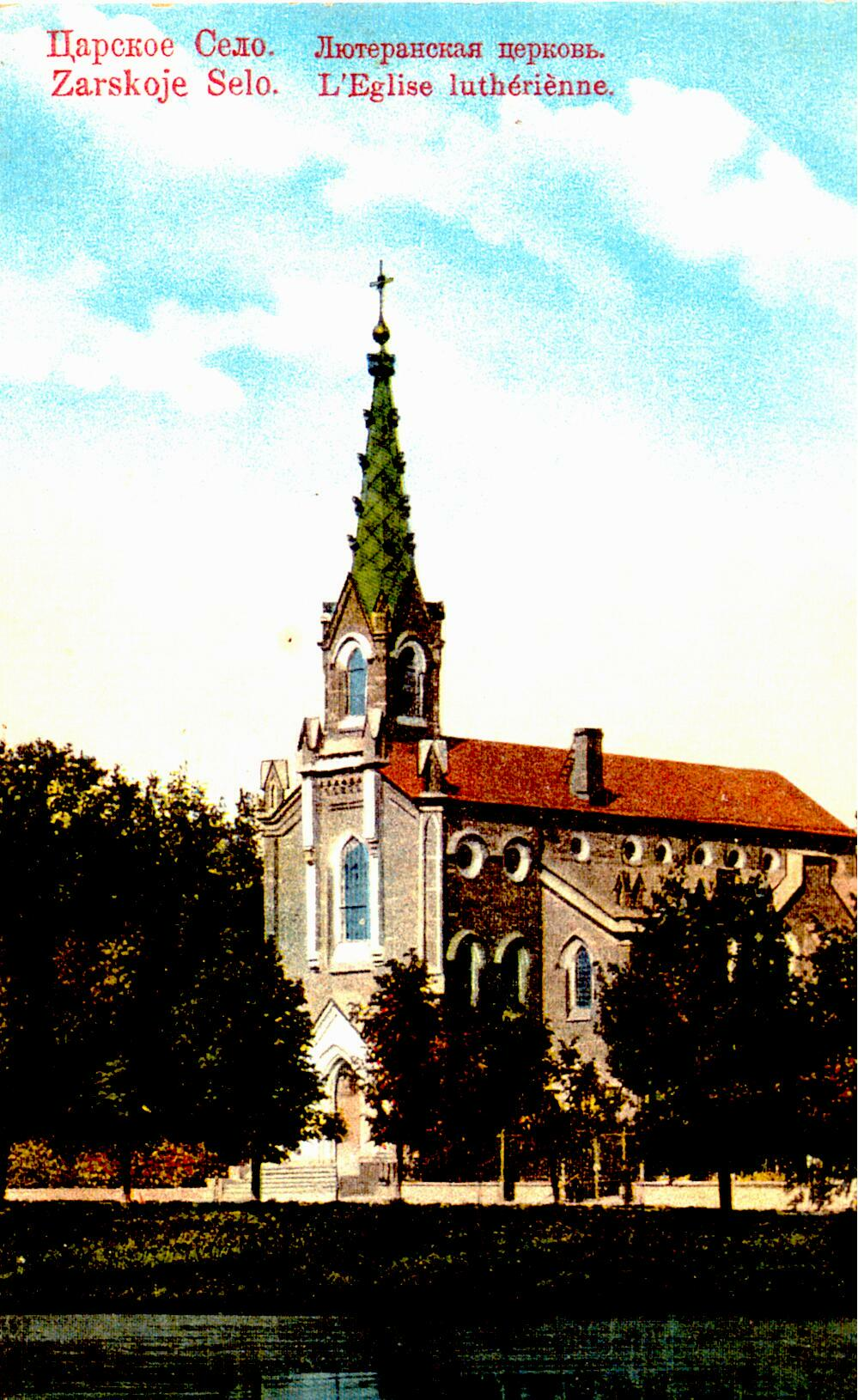 Lutheran church in neo-gothic style (1865) St.Petersburg. Pushkin